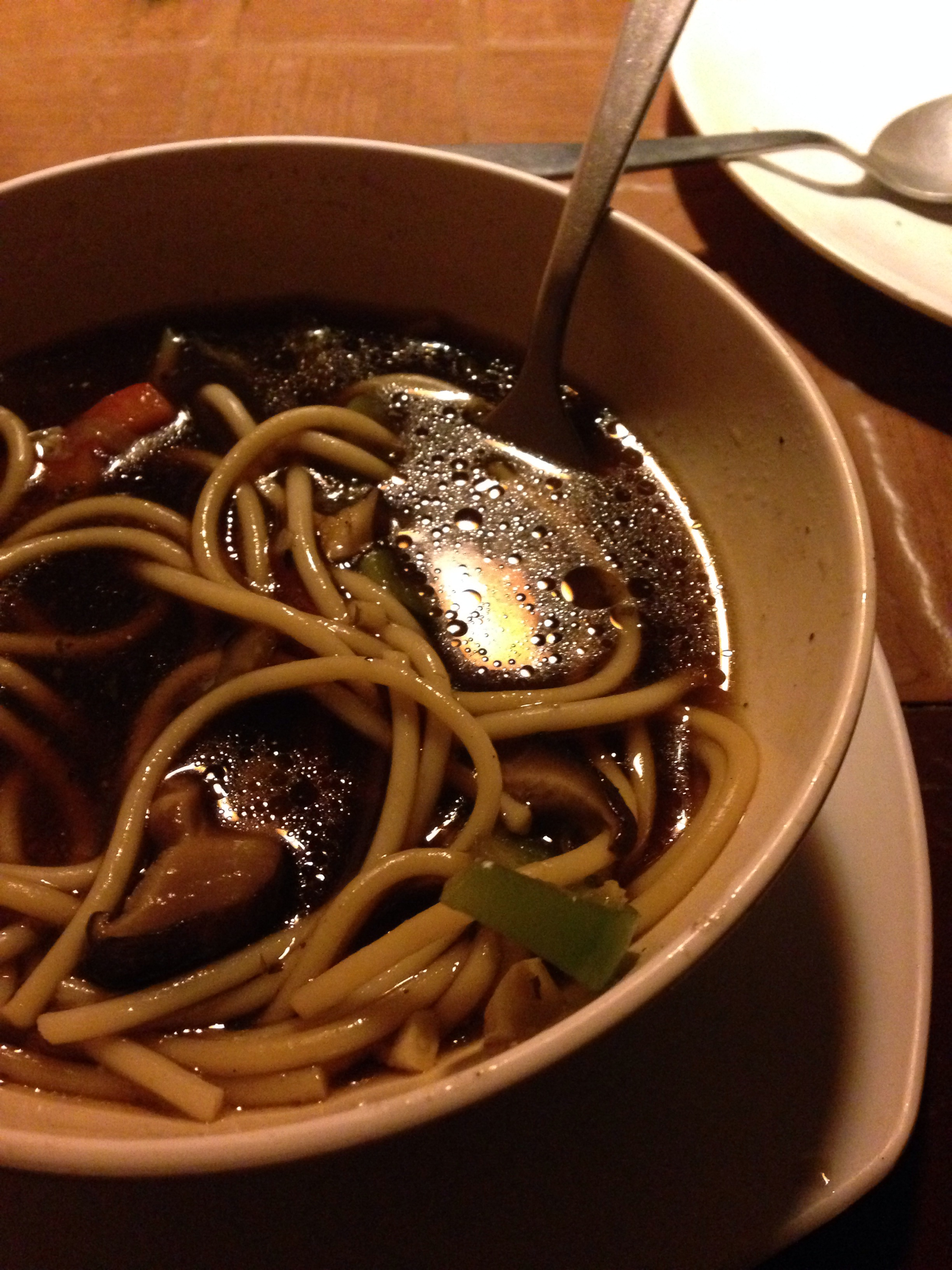 thukpa a Tibetan delicacy